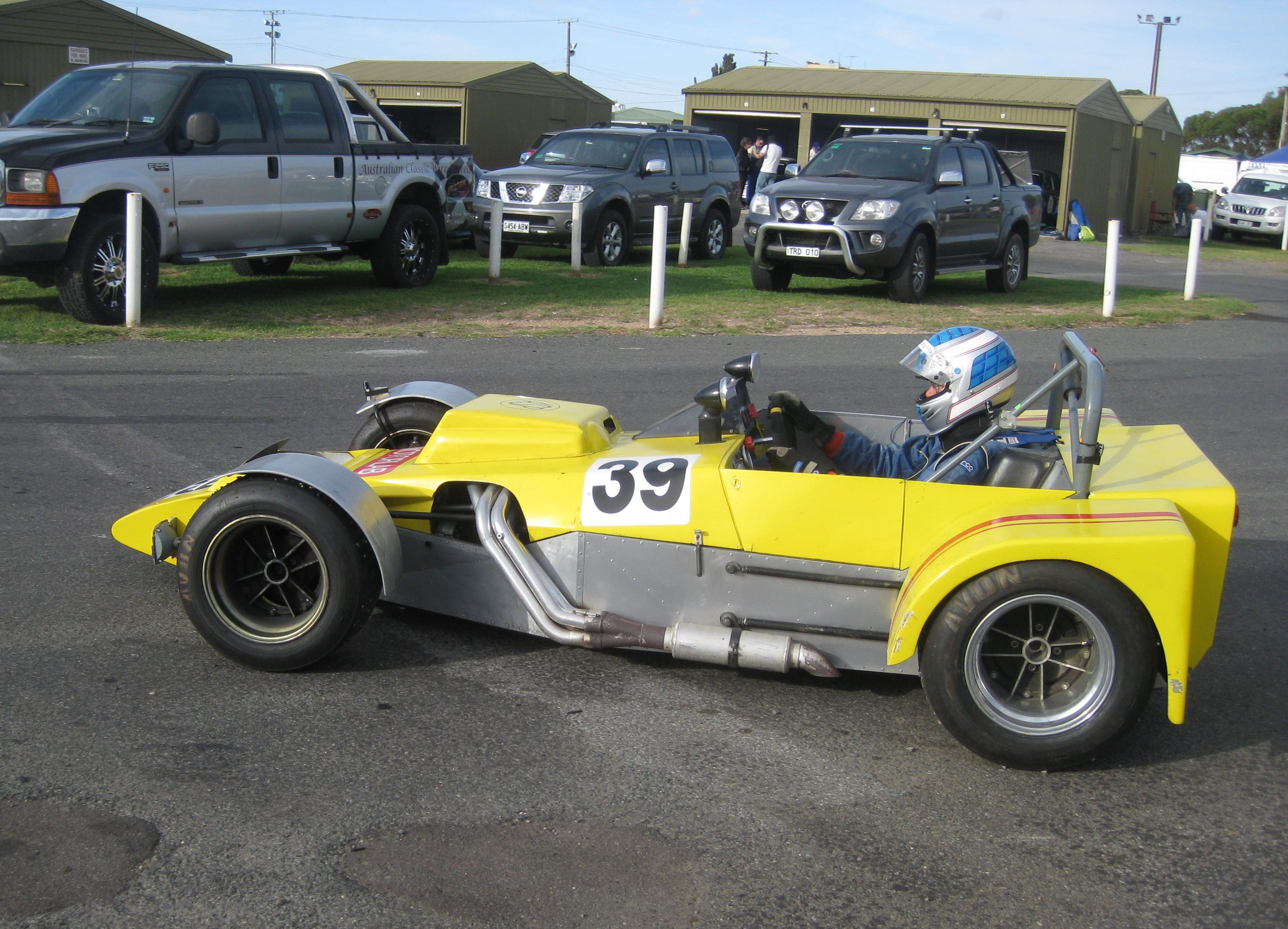 The 1972 Asp of Jim Doig at Mallala Motor Sport Park on 7 April 2012.